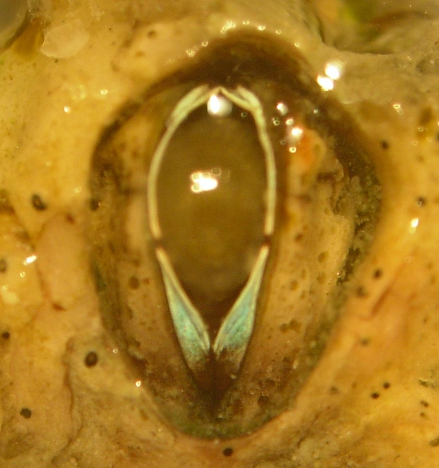 Tergo-scutal flaps in Chthamalus montagui